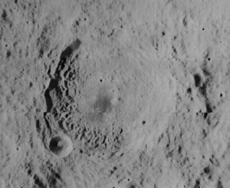 Langemak, on the moon.